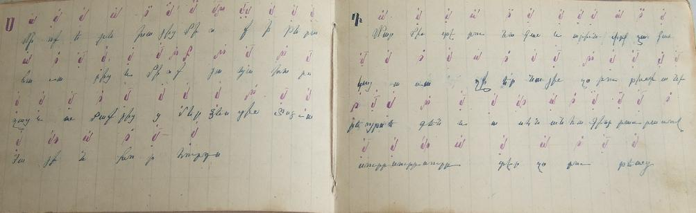 Example of New Armenian Notation (developed by Hampartsoum Limondjian) from a 1922 handwritten liturgy notebook. Notebook author: Grigor Aghazarian, New Julfa, Iran.